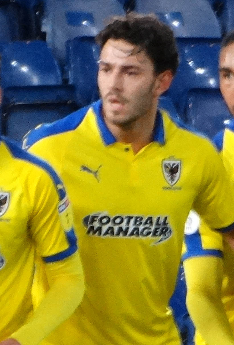 Checkatrade Trophy 4.12.18